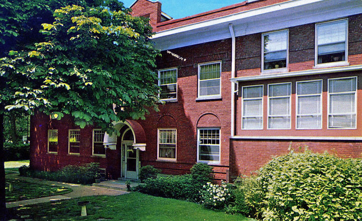 National WCTu Headquarters at 1730 Chicago Avenue, Evanston, IL